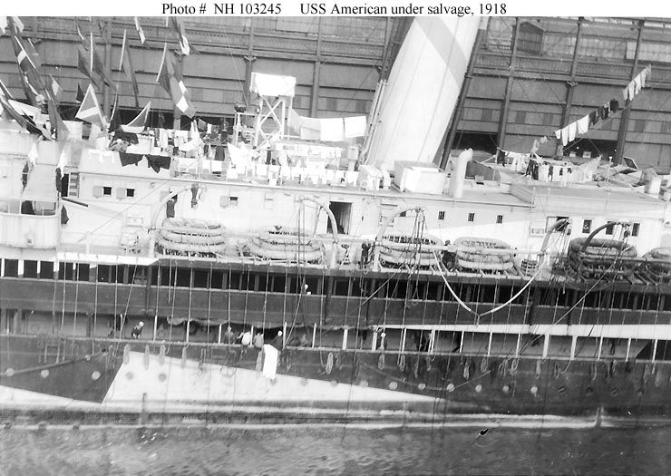 USS America (1905) under salvage at Hoboken, New Jersey. She accidentally sank at her pier on 15 October 1918. This photograph provides a close-up view of the ship's port side, amidships, showing men on her deck, signal flags drying and laundry hanging from railings, smokestack stays and other locations. Note the camouflage pattern painted on America's hull, superstructure and forward smokestack.